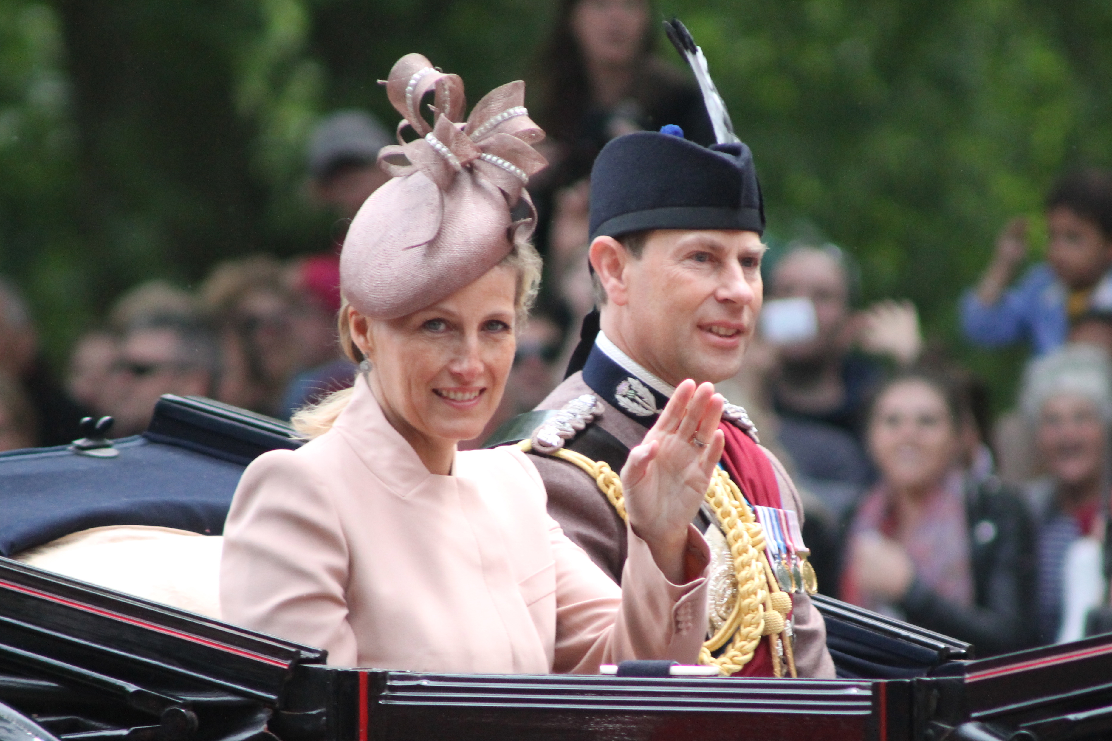 The Earl and Countess of Wessex, Trooping the Colour, June 2013